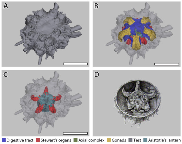 Comparison of a digital 3D model with a traditional anatomical sketch. (A)-(C) Eucidaris metularia. Selected views taken from the interactive 3D model: (A) external view; (B) external view with transparent test, internal organs visible; (C) external view with transparent test and all internal organs removed except for Stewart's organs and Aristotle's lantern. (D) Cidaris cidaris (= Dorocidaris papillata). Image taken from [42] and modified. Stewart's organs constitute extensions of the peripharyngeal coelom. Scale bar: 1 cm. The colour legend specifies organ designation. The interactive 3D mode can be accessed by clicking onto Figure 6 in the 3D PDF version of this article: Additional file 7 (Adobe Reader Version 7.1 or higher required).